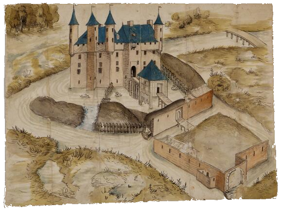 Castle Driesbergh, here seen in birdseye view with direct surroundings, was situated in the churchvillage Kessel at the Niers.